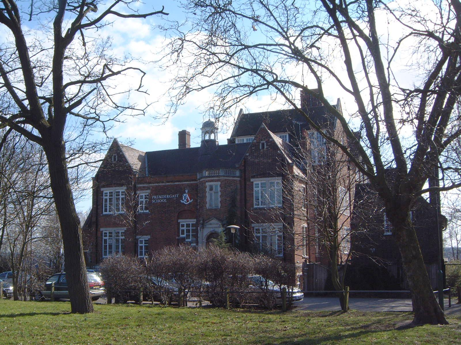 Prendergast School Main Entrance own work March 2006 Expitheta